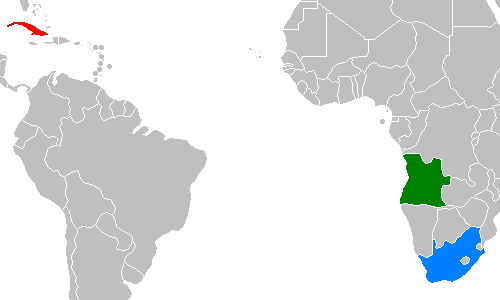 Locator map for Cuba, Angola and South Africa.